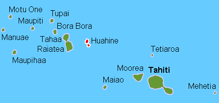 Location of Huahine within Society Islands, French Polynesia